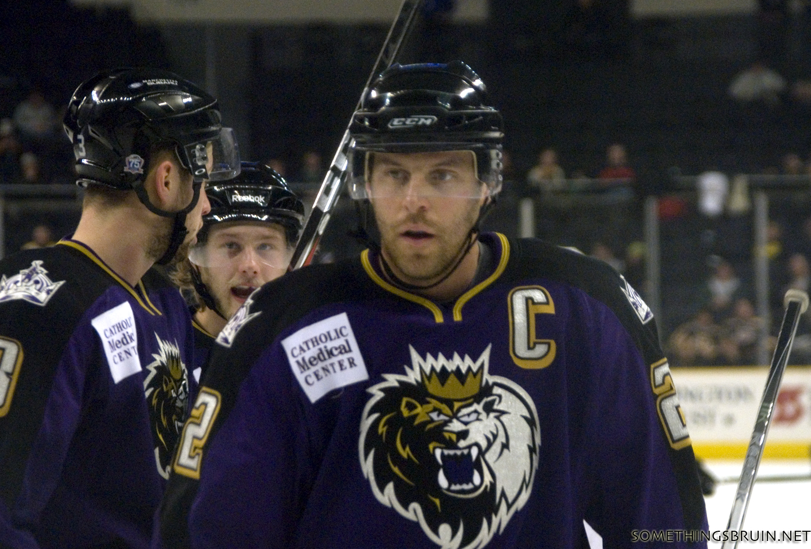 Marc-Andre Cliche Manchester Monarchs versus Providence Bruins. American Hockey League (AHL). Taken by Sarah Connors on January 23, 2011 using a Nikon D200. This photo also appears in Sarah Connors' Flickr set "Manchester @ Providence, 1/23/11" (Set of 98).